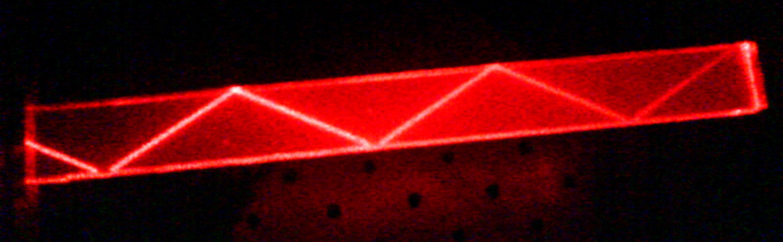 Total internal reflection in a bar of PMMA. The laser is HeNe laser